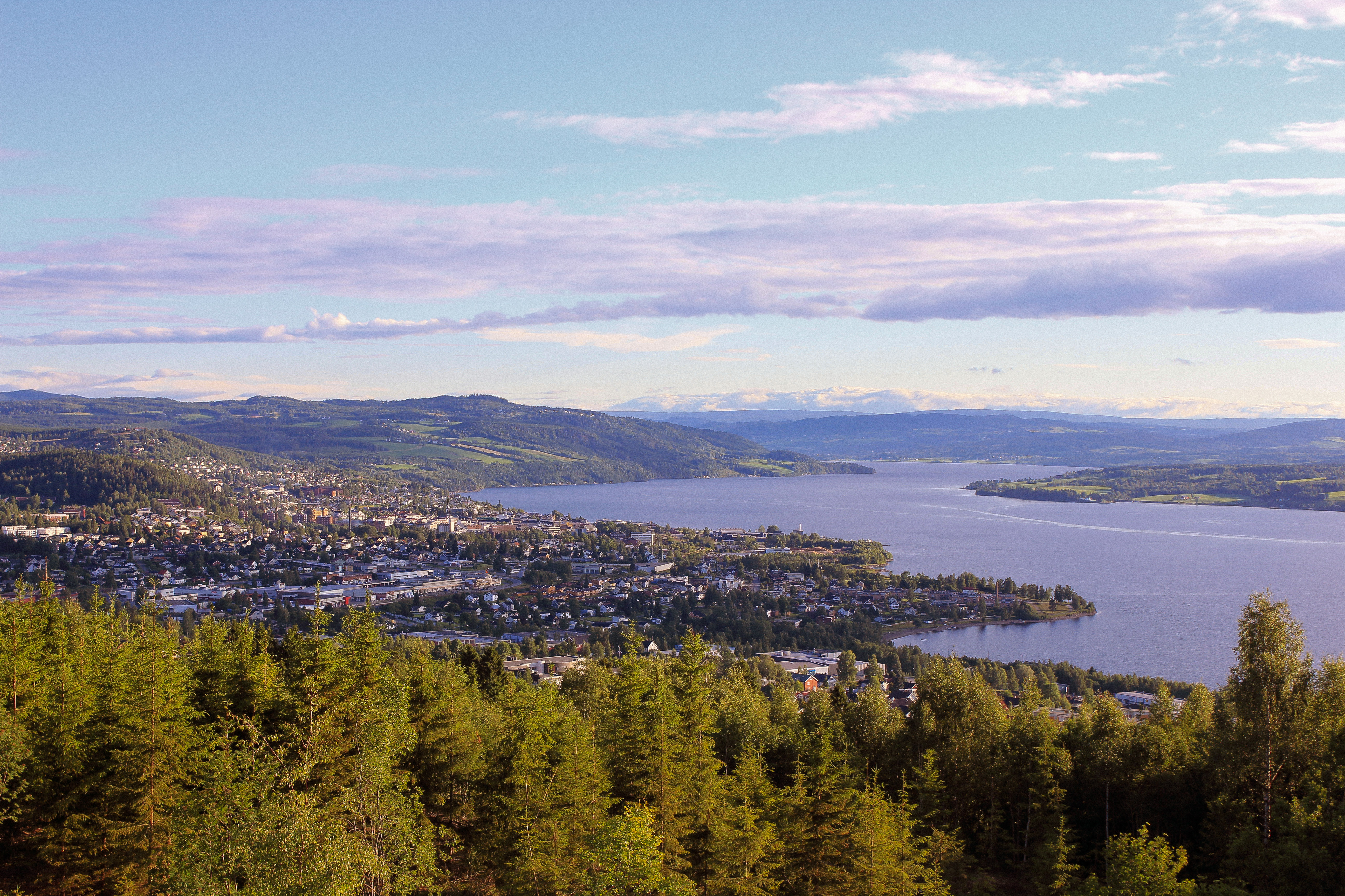 Gjoevik (Gjøvik) is a sleepy hillside town by Lake Mjøsa, Oppland, Norway.